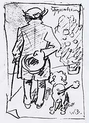 Arthur Schopenhauer caricatured by Wilhelm Busch